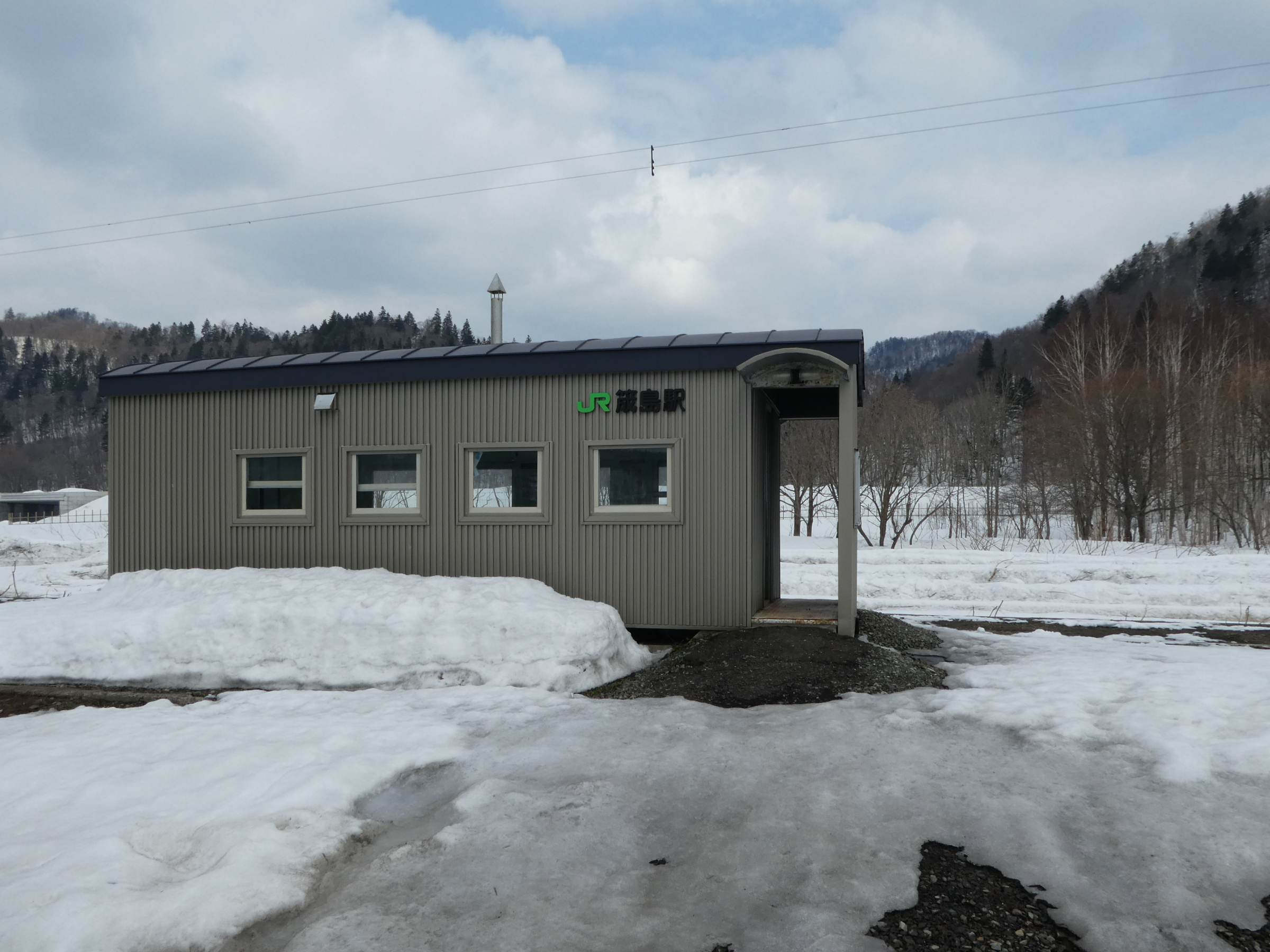 Osashima Station on the Soya Main Line in Hokkaido, Japan